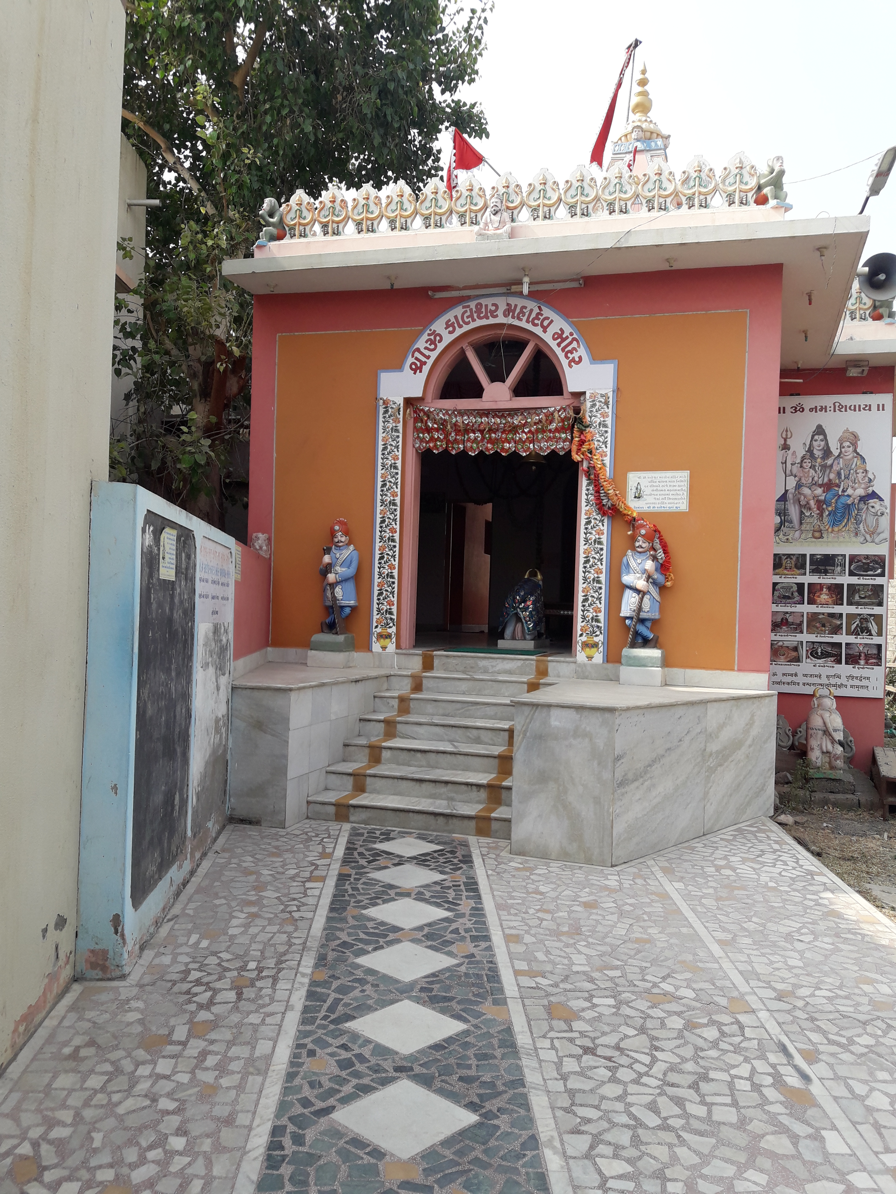 Shri Om Kaleshwar Mahadev Temple at Anjar, Kutchh